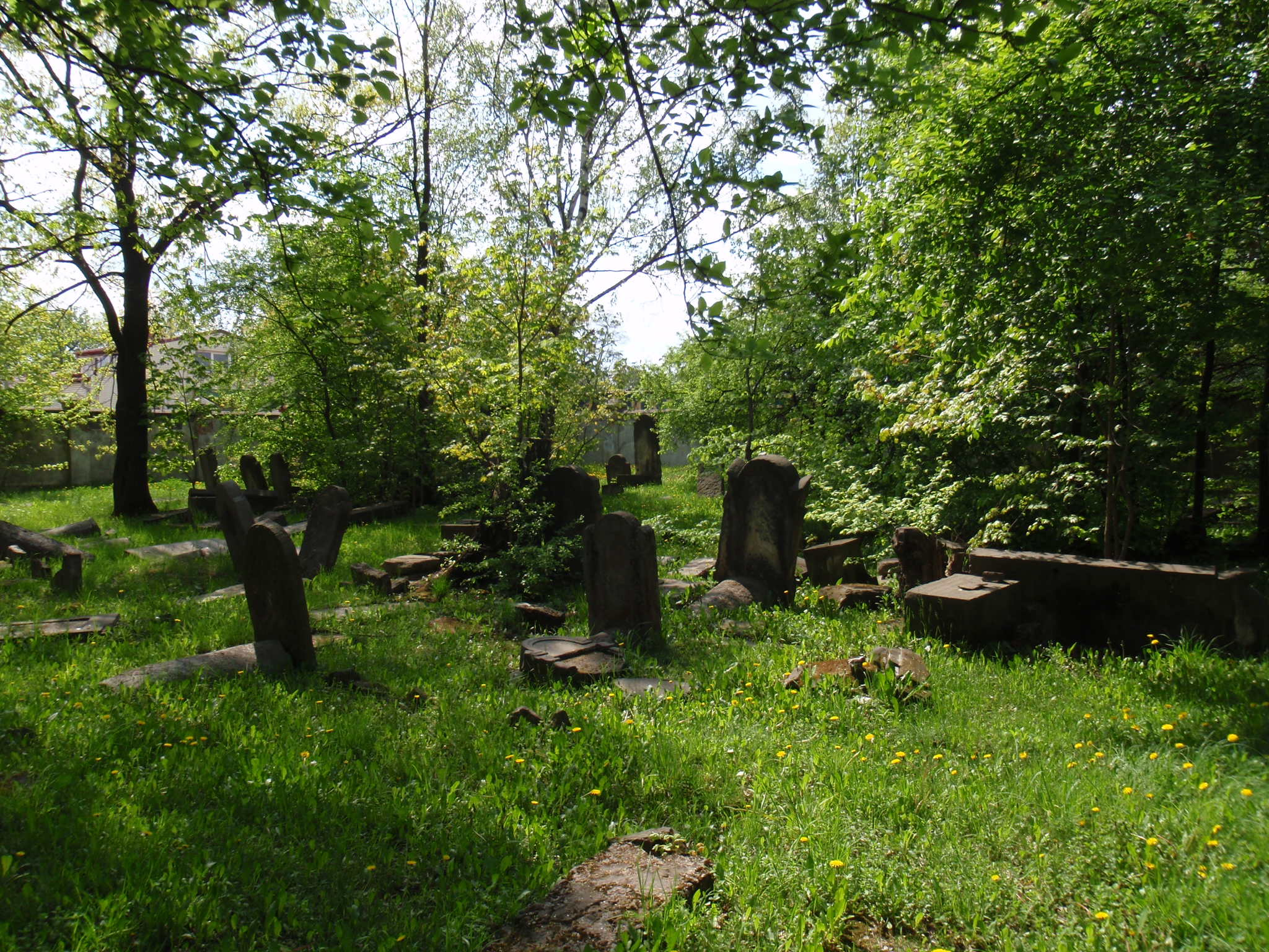 Grodzisk Mazowiecki - Jewish cemetery